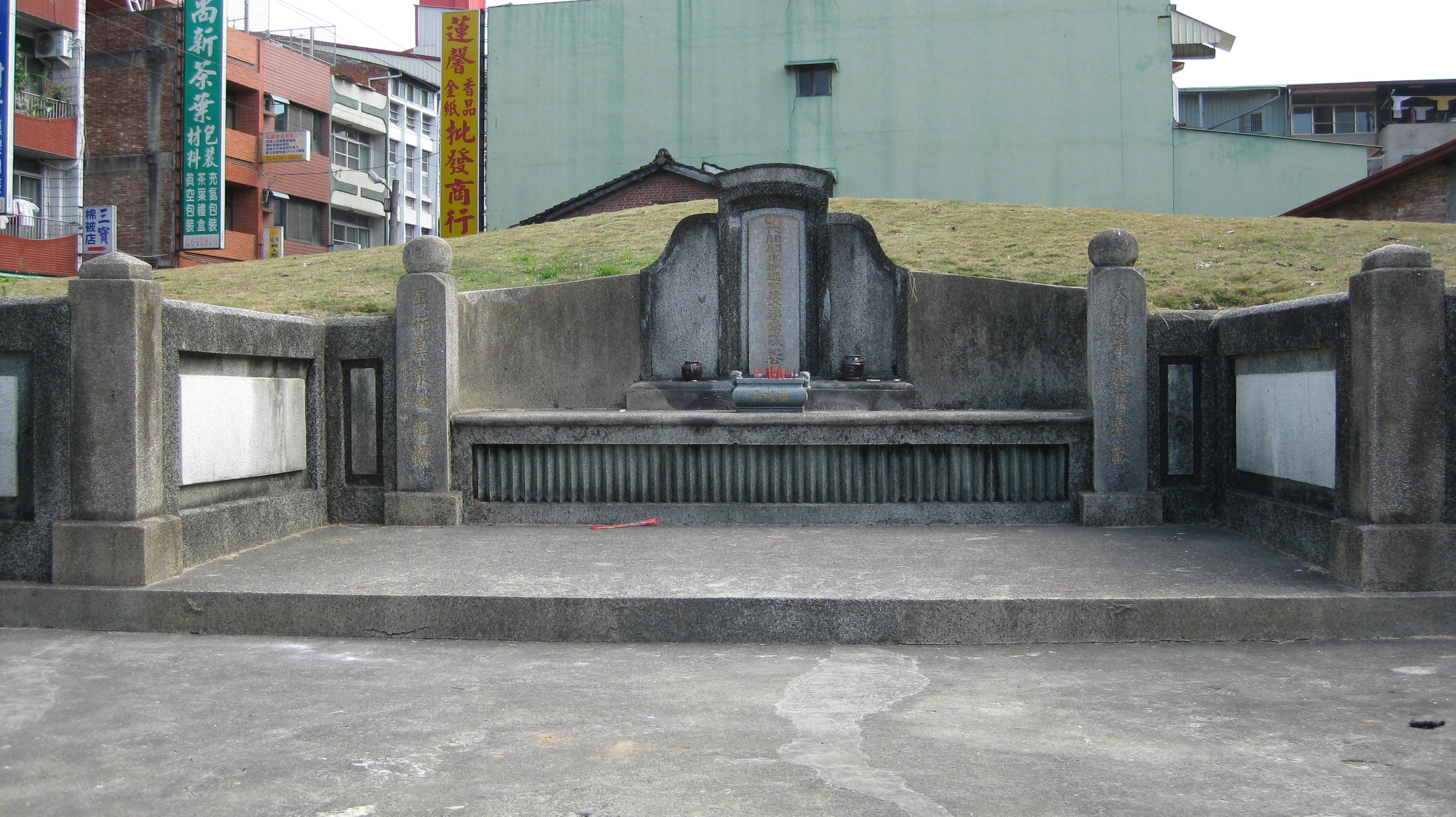 Linpi's tomb located at the intersection of Yuying Rd. and Linpi St. in Jhushan,Nantou County.